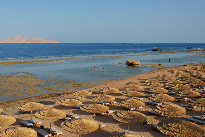 Beach in Sharm El Sheikh